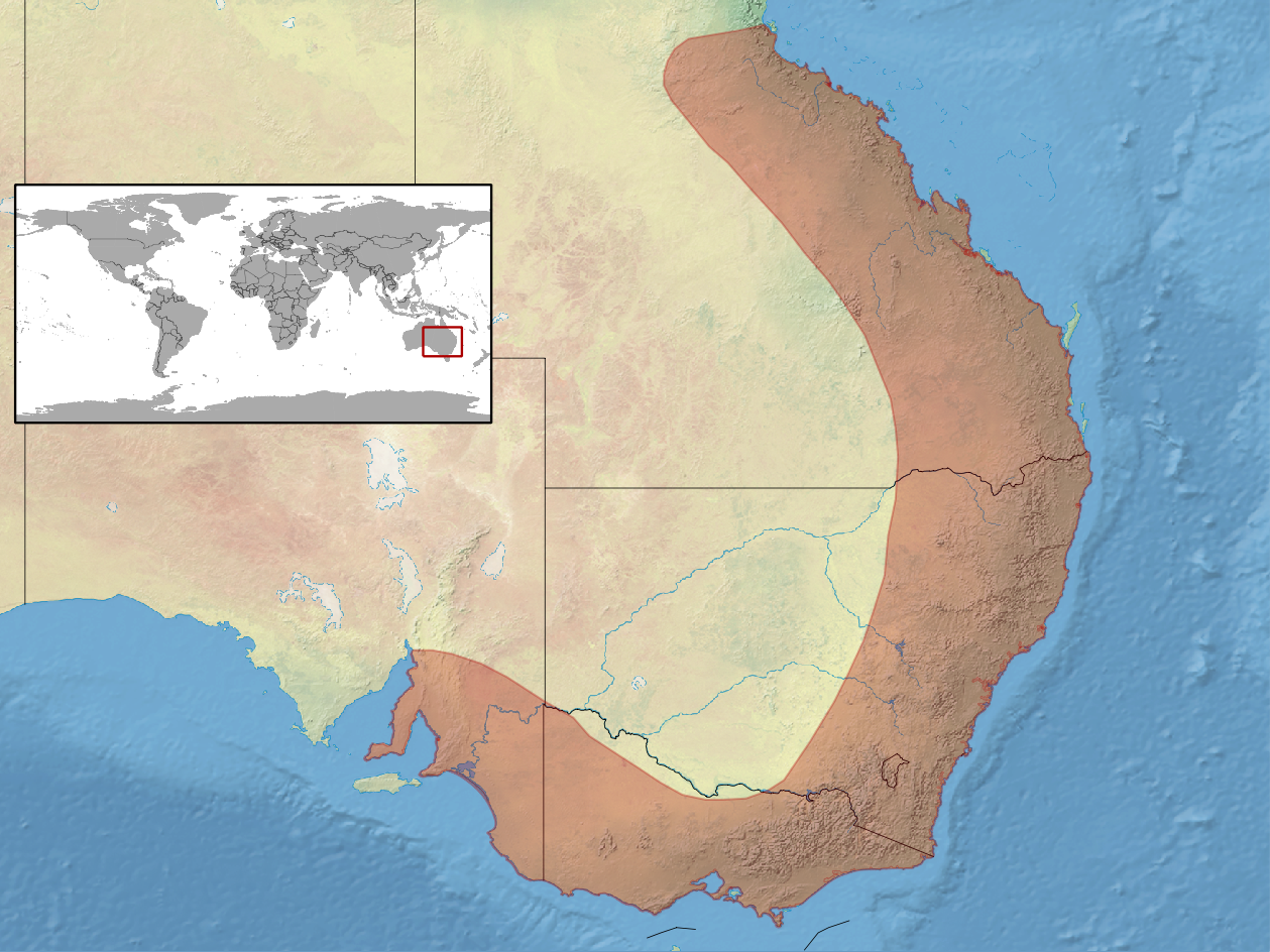 geographic distribution of Pogona barbata (Native: Australia (New South Wales, Queensland, South Australia, Victoria))